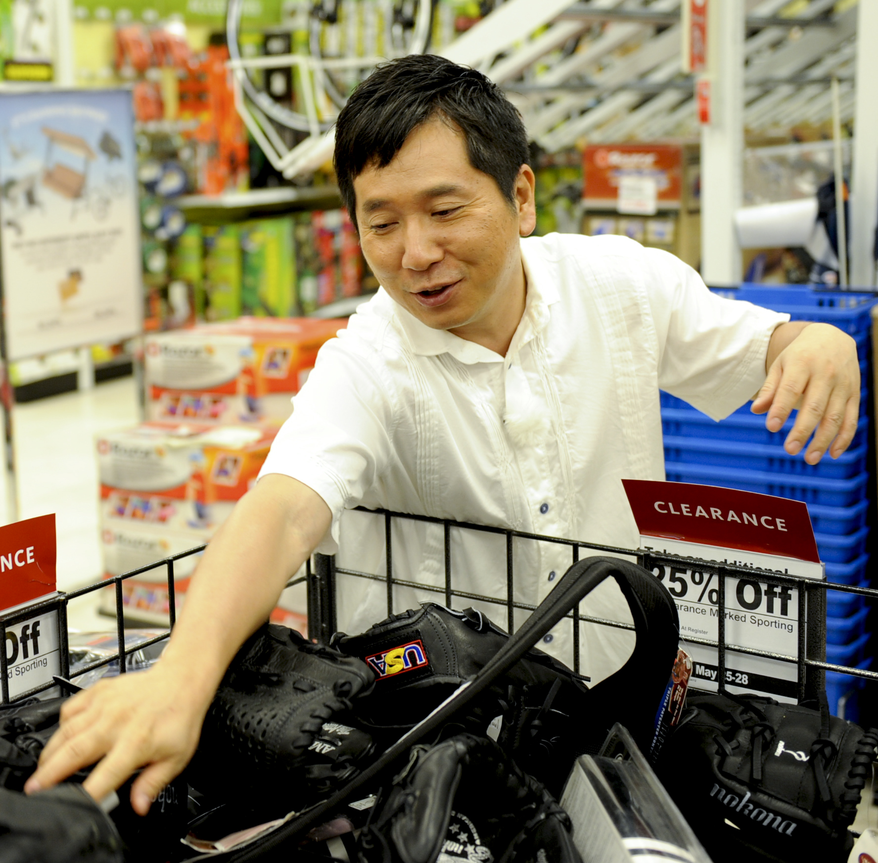 Yuji Tanaka, Japanese comedian, looks at baseball mitts while on a tour of the Base Exchange on Kadena Air Base, Japan, June 1, 2012. Tanaka visited Kadena, with co-host Hikari Ota, to film the newest episode of their newest show Tanken Bakumon, which in English translates to Deep Inside. (U.S. Air Force photo/ Airman 1st Class Brooke P. Beers)